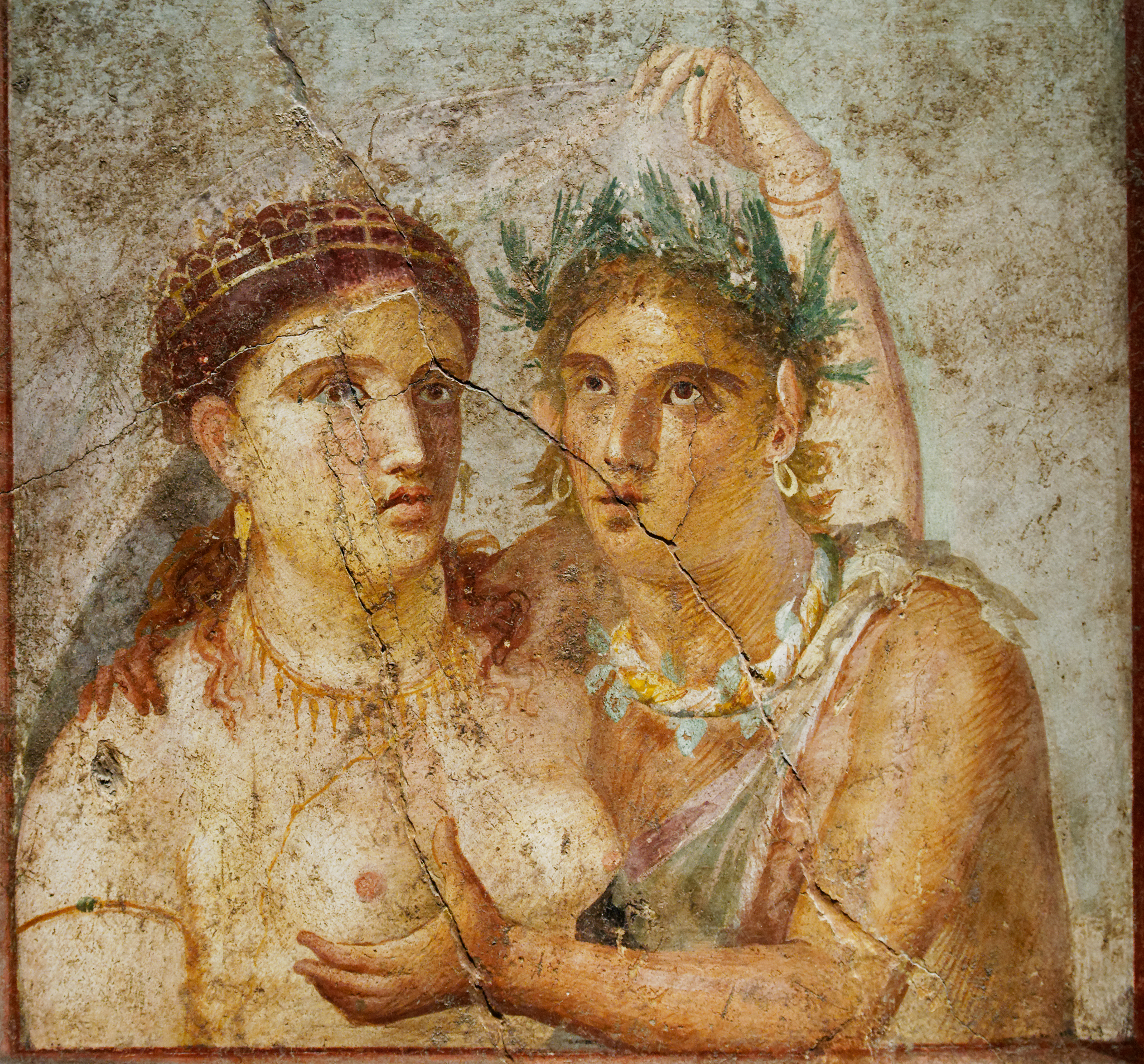 Satyr and maenad.